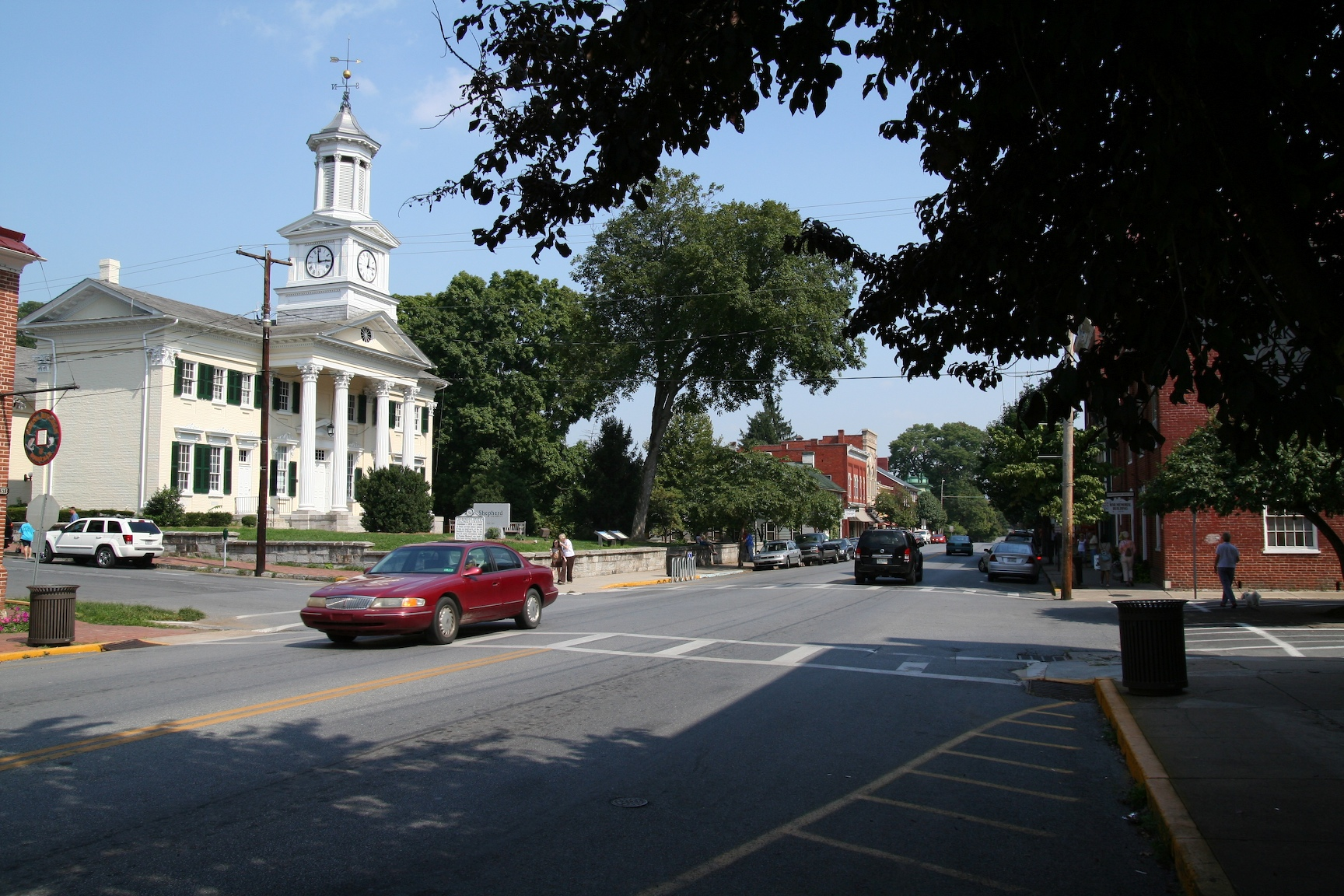 View down German Street in Shepherdstown, West Virginia